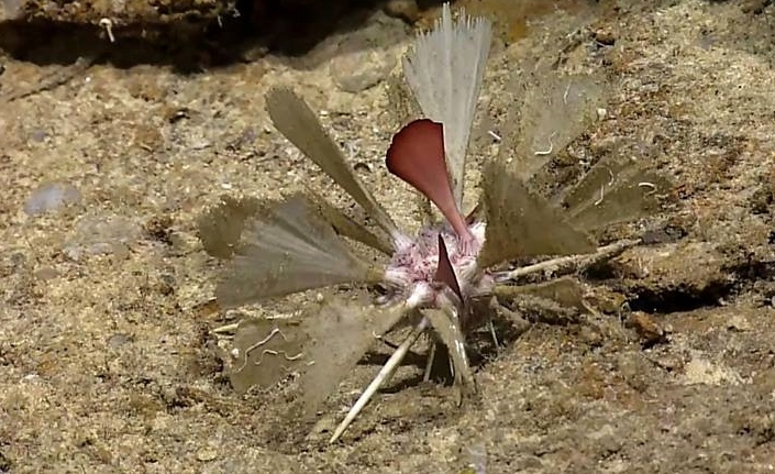 Cidaris blakei in the abyss off to Porto Rico.